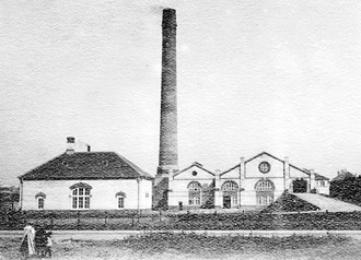 A photograph of Frederiksberg Forbrændingsanstalt in Frederiksberg Municipality, Copenhagen, Denmark